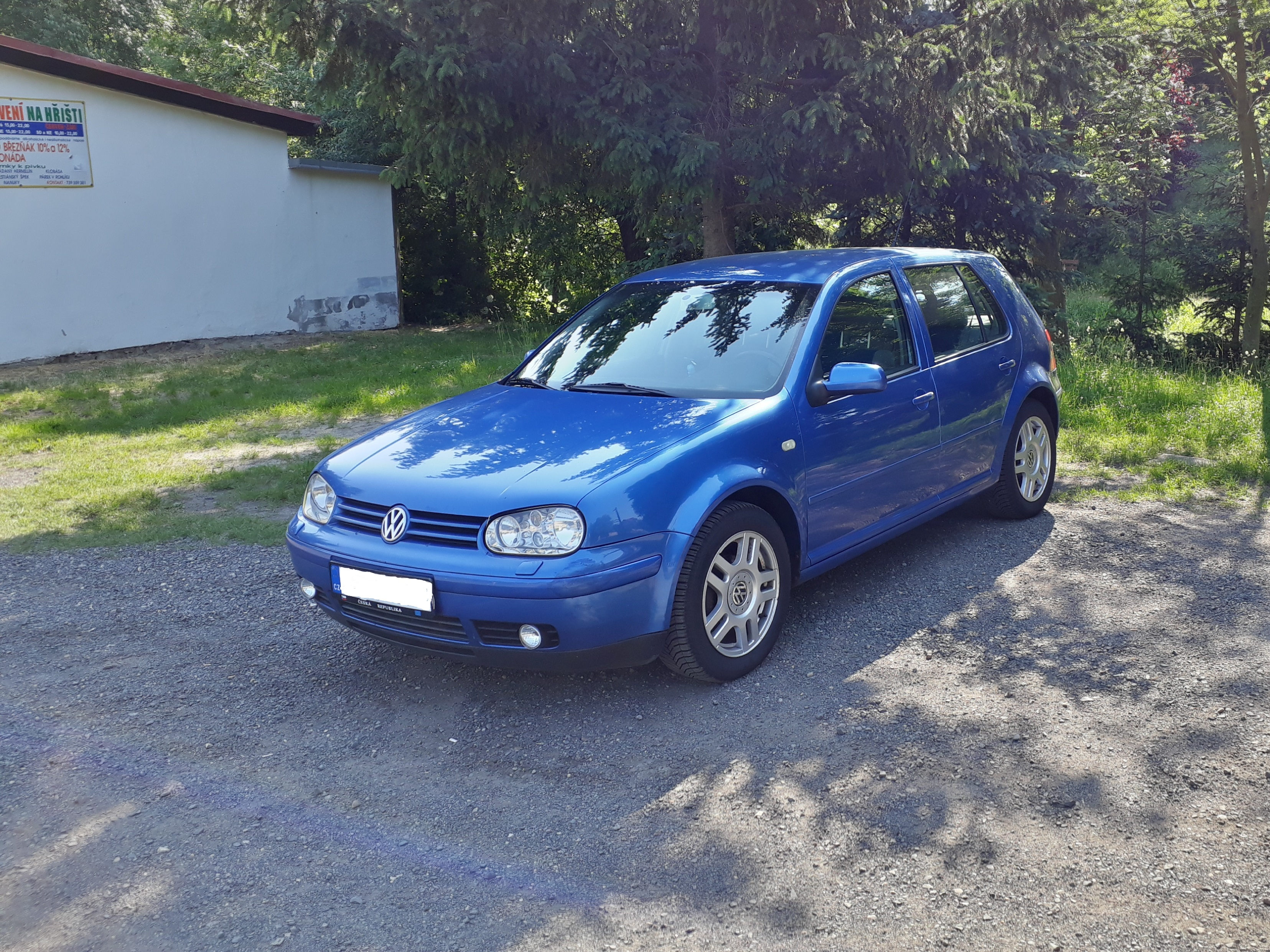 Golf 4 Generation edition 1999 with original alloy wheels "Montreal"